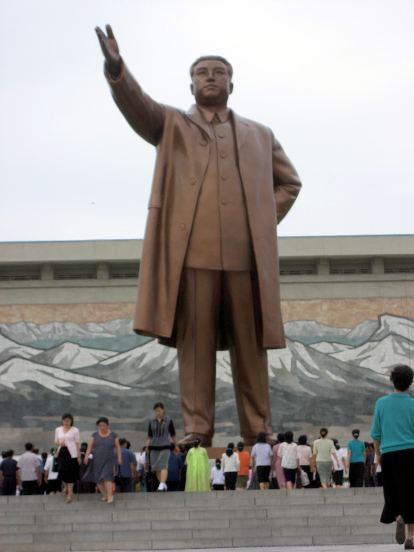 The Mansudae Grand Monument (1972) with its imposing statue of President Kim Il Sung stands before the Korean Revolution Museum in Pyongyang.